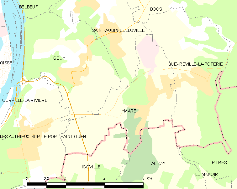 Map of French municipality Ymare